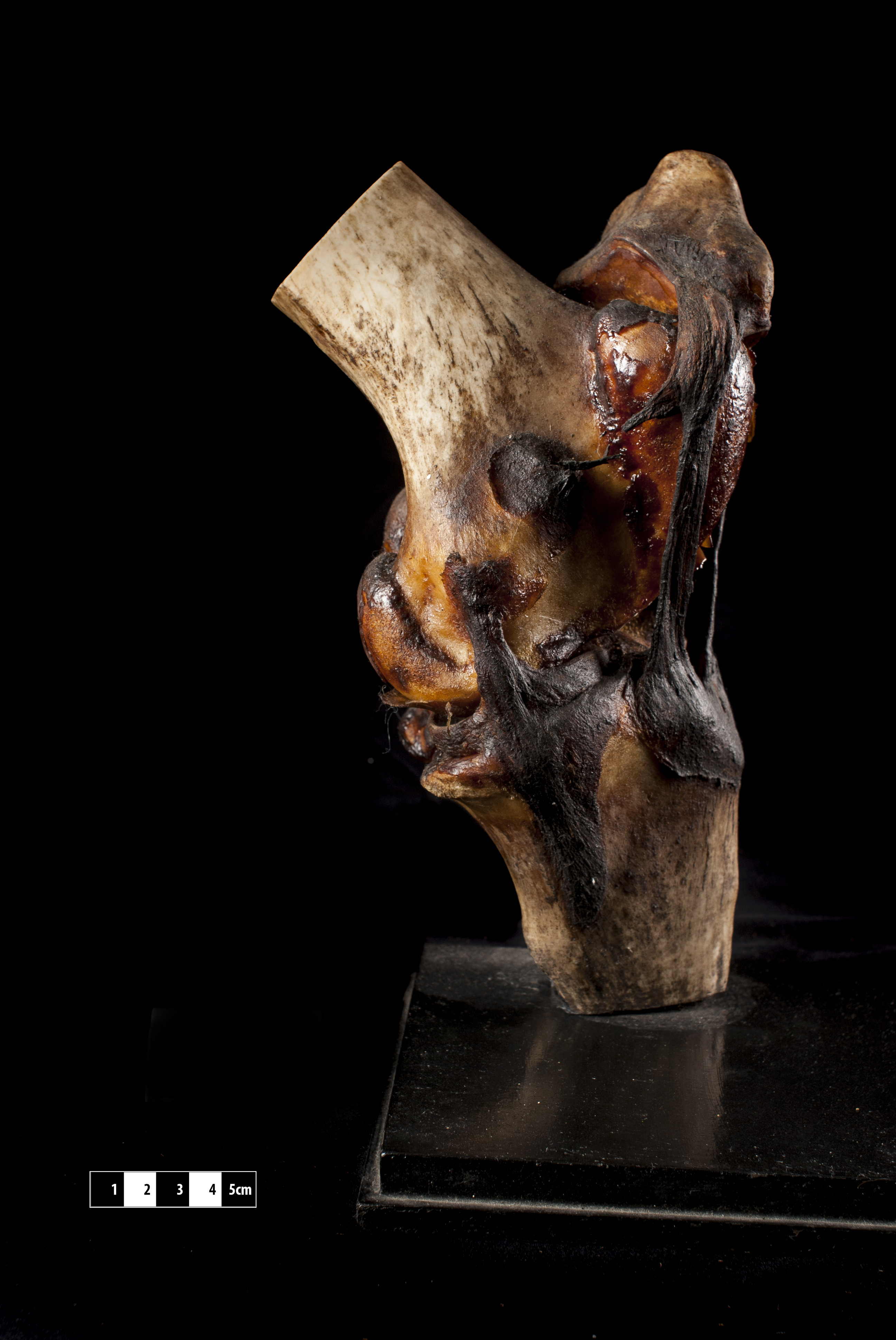 Bovine articulation. Bos taurus Technique of dissection and freeze-drying - piece showing knee joint of bovine. Displayed at the Museum of Veterinary Anatomy, FMVZ USP. This file was published as the result of a partnership between the Museum of Veterinary Anatomy FMVZ USP, the RIDC NeuroMat and the Wikimedia Community User Group Brasil. This GLAM project is reported. Photography: Museum of Veterinary Anatomy FMVZ USP. Author: Wagner Souza e Silva.